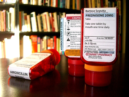 Image of Target ClearRx prescription bottles by Bartosz Szyszka. From Flickr.